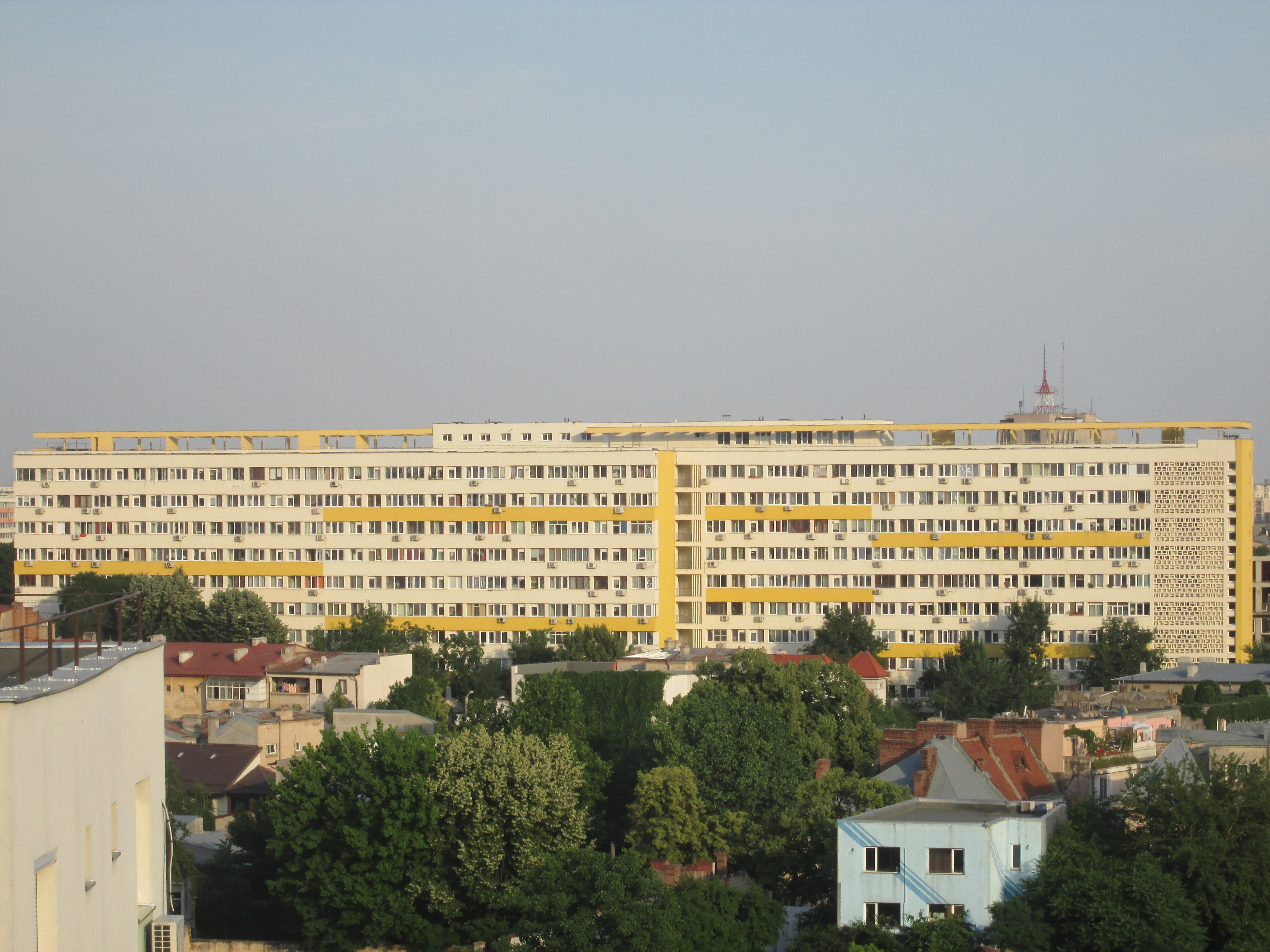 P10 Block (part of the Iancului-Lizeanu housing estate), built in 1963 and renovated in 2016, seen from Calea Moșilor. This type of building is similar to the Comuna 63 (Block 63) building in Dristor, the biggest apartment building in Romania (to be built in the communist era).